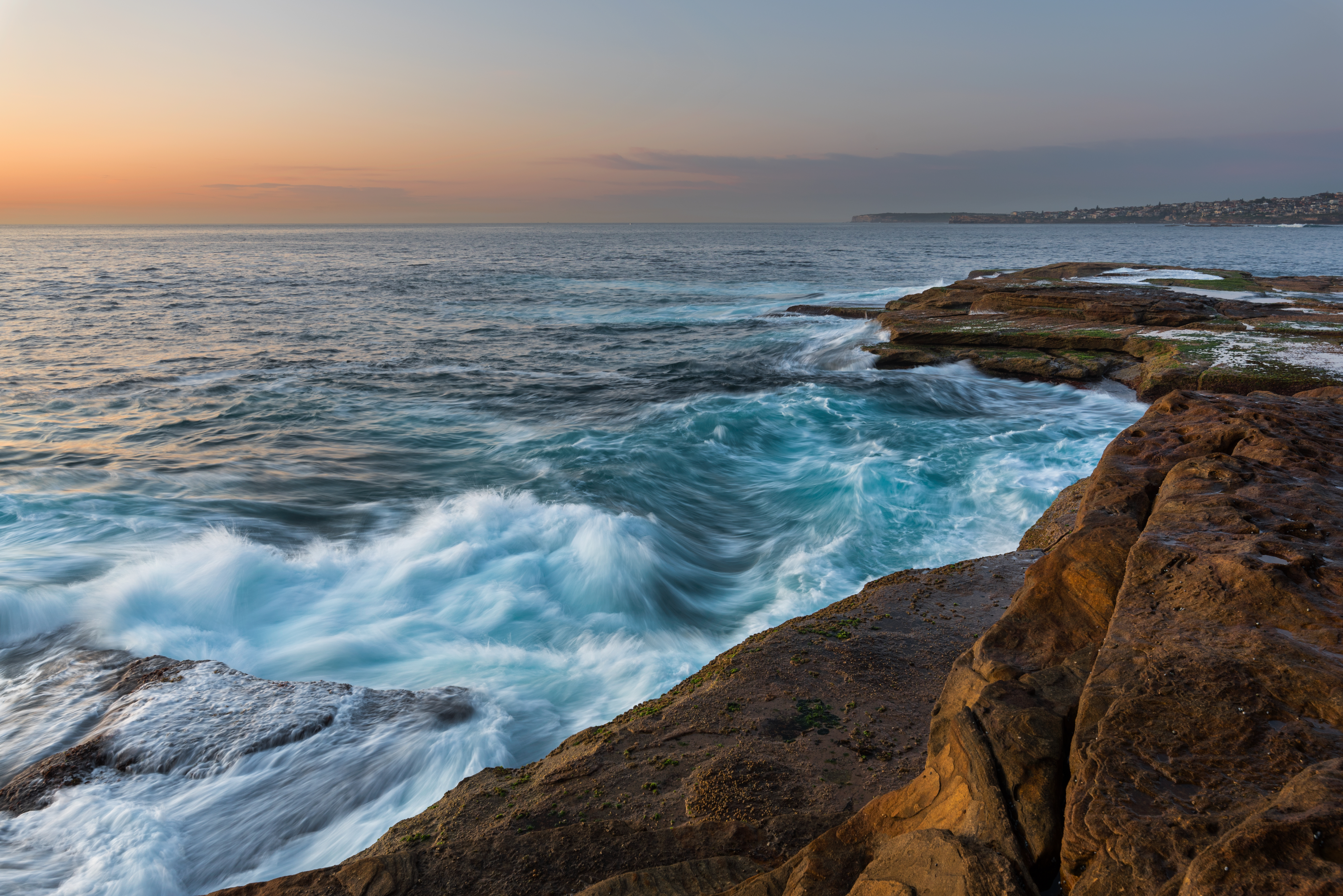 Sunrise Seascape with unrest sea and blue water and with sky lit orange rocks